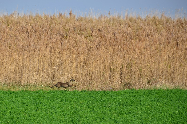 This is a a photo of a natural area in Serbia with ID: РП13 Slano Kopovo